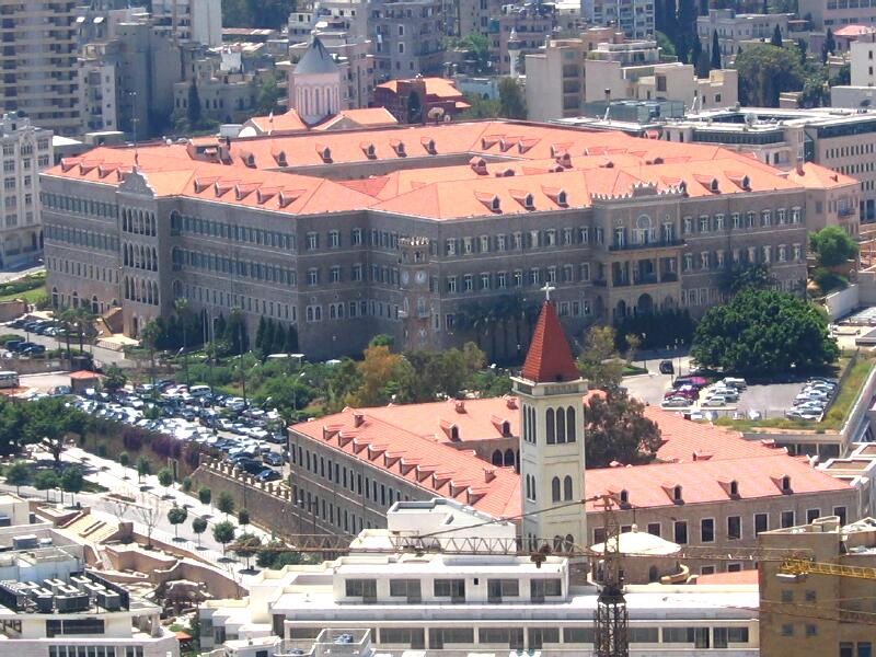 The Grand Serail السراي الكبير